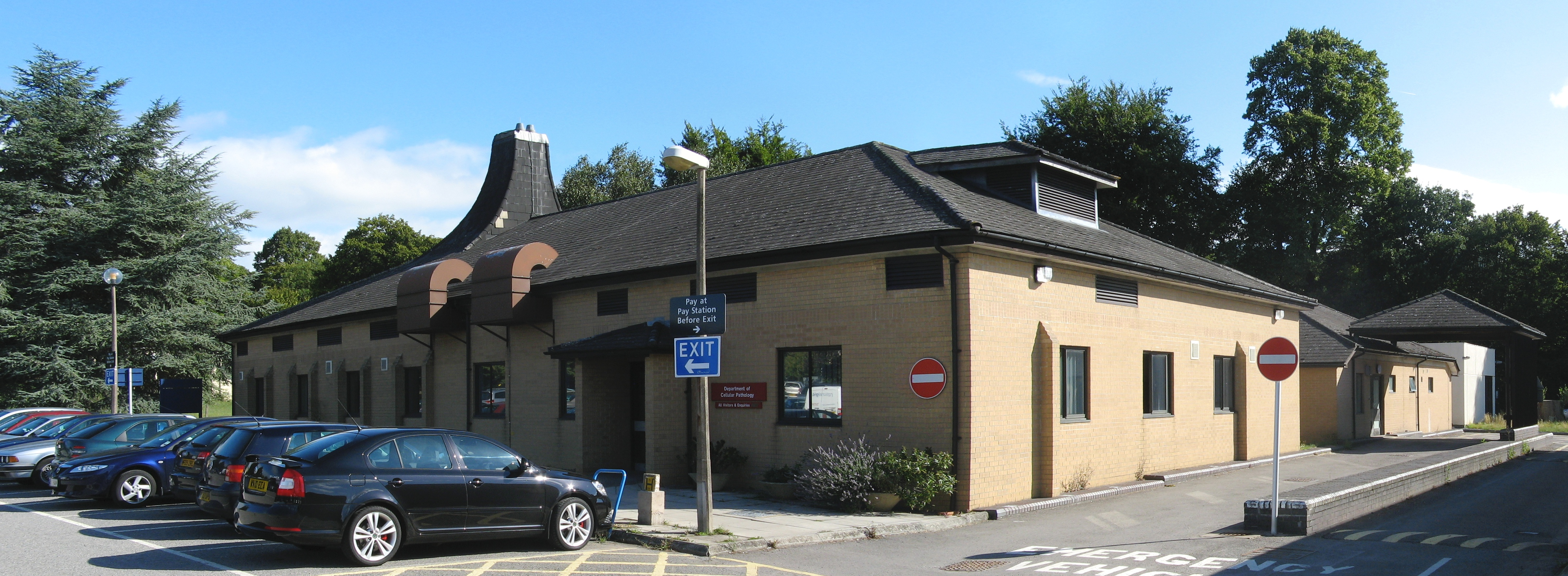 Royal United Hospital, mortuary and pathology laboratory. This building was demolished in 2016 as part of the RUH North development plan.[1]